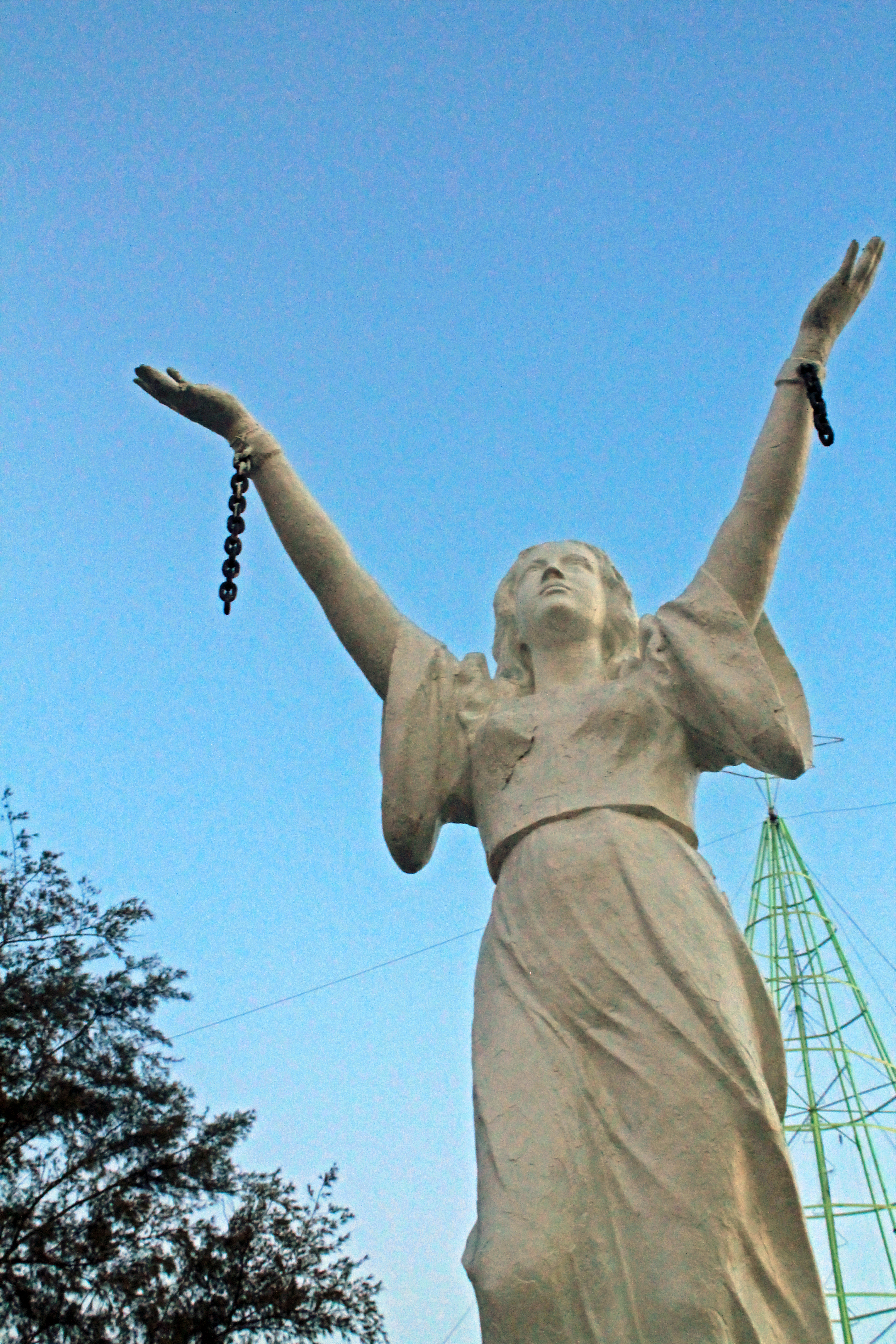 A small monument in San Jose, Occidental Mindoro at the municipal park commemorating soldiers who fought the Japanese in the second world war